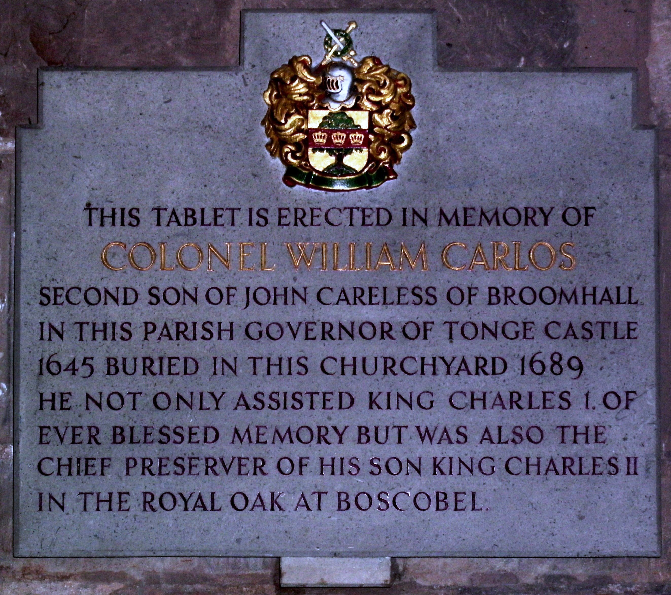 Memorial tablet for William Carlos/Careless, who helped in the escape of Charles II, Brewood parish church.